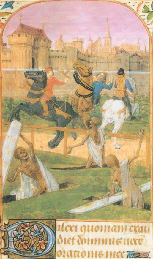 Representation of the legend of the three living and the three dead